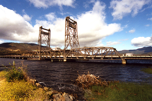 Bridgewater Bridge, Tasmania, Australia.